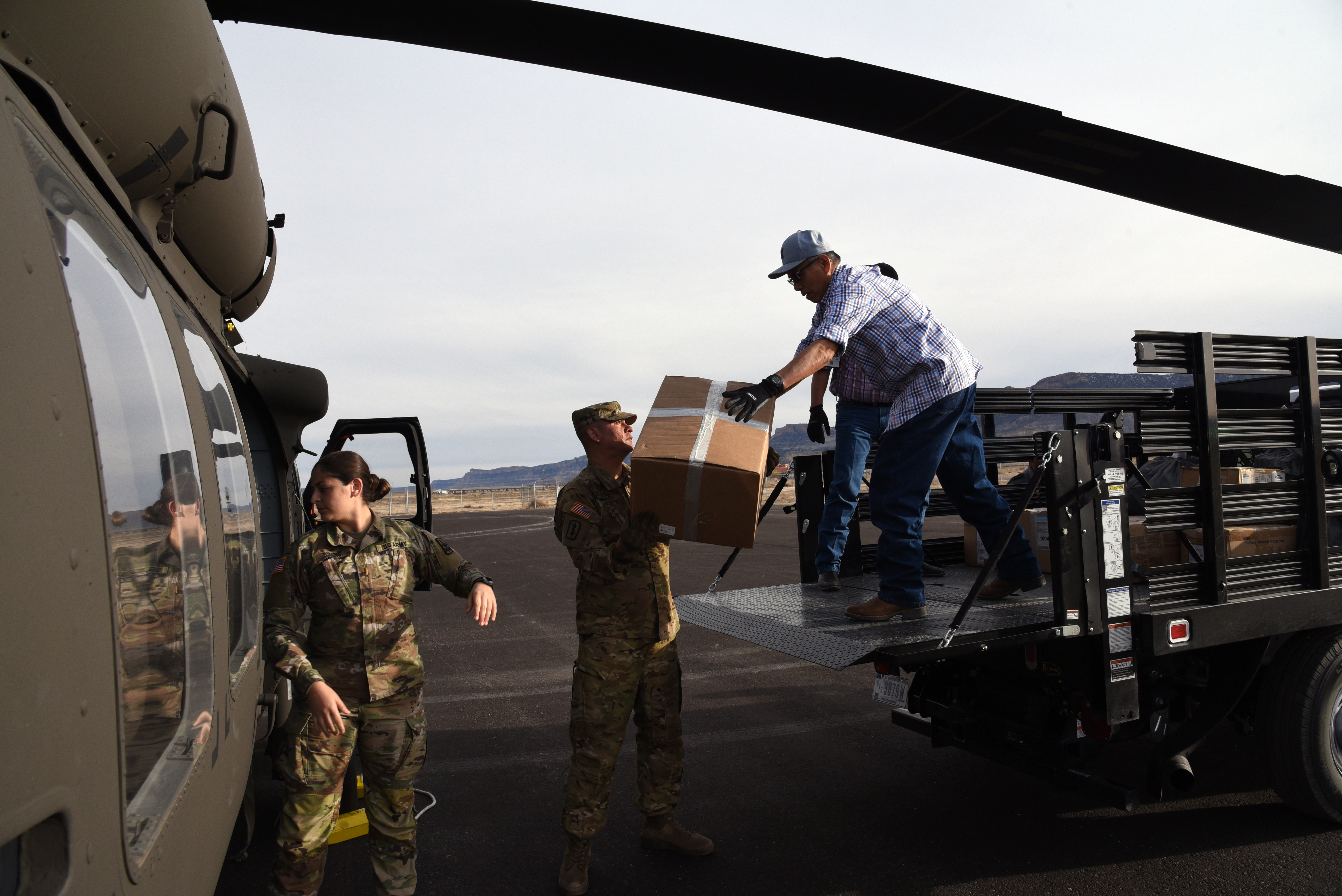 2nd Lt. Maram Sweis, Arizona Army National Guard medical operations officer and Sgt. Jonathan Atcitty, Arizona Army National Guard crew chief, and Kayenta Hospital personnel, load medical personal protection equipment from a UH-60 Black Hawk into a truck March 31, 2020, in Kayenta, Ariz. The Arizona National Guard flew medical PPE to the local hospital in response to COVID-19. The Arizona Guard has responded domestically in such emergencies as airport security after 9/11, Monument Fire in 2011, Hurricane Harvey in 2017, and the Havasupai Floods in 2018. (U.S. Air National Guard photo by Tech. Sgt. Michael Matkin)